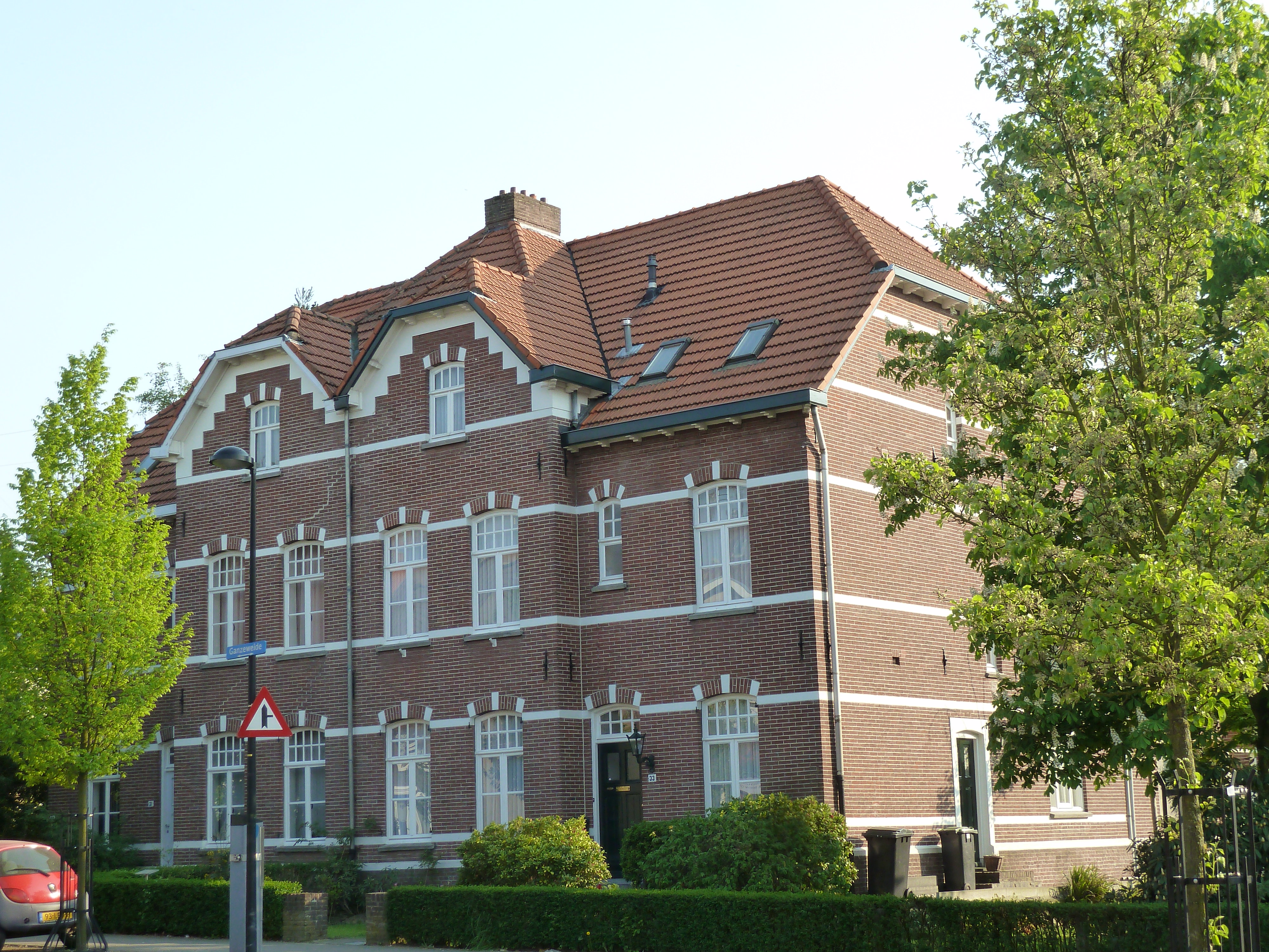 Ganzeweide 29A-33, Heerlen, Limburg, the Netherlands